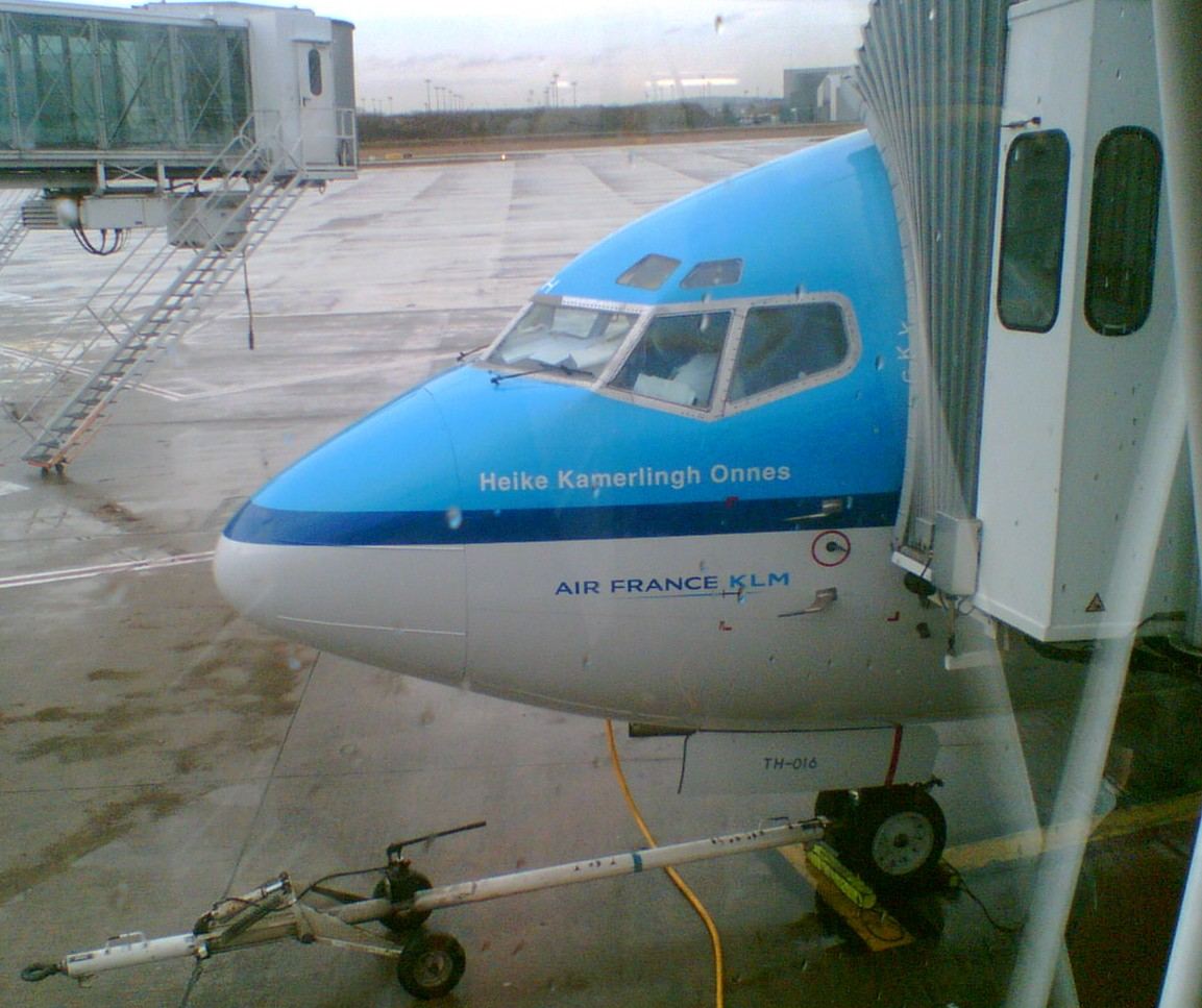 Nose of the air-france/KLM plane TH-016 Heike Kamerlingh Onnes Shot with Nokia 6310i 1Mpx Schiphol Airport, Amsterdam, the Netherlands